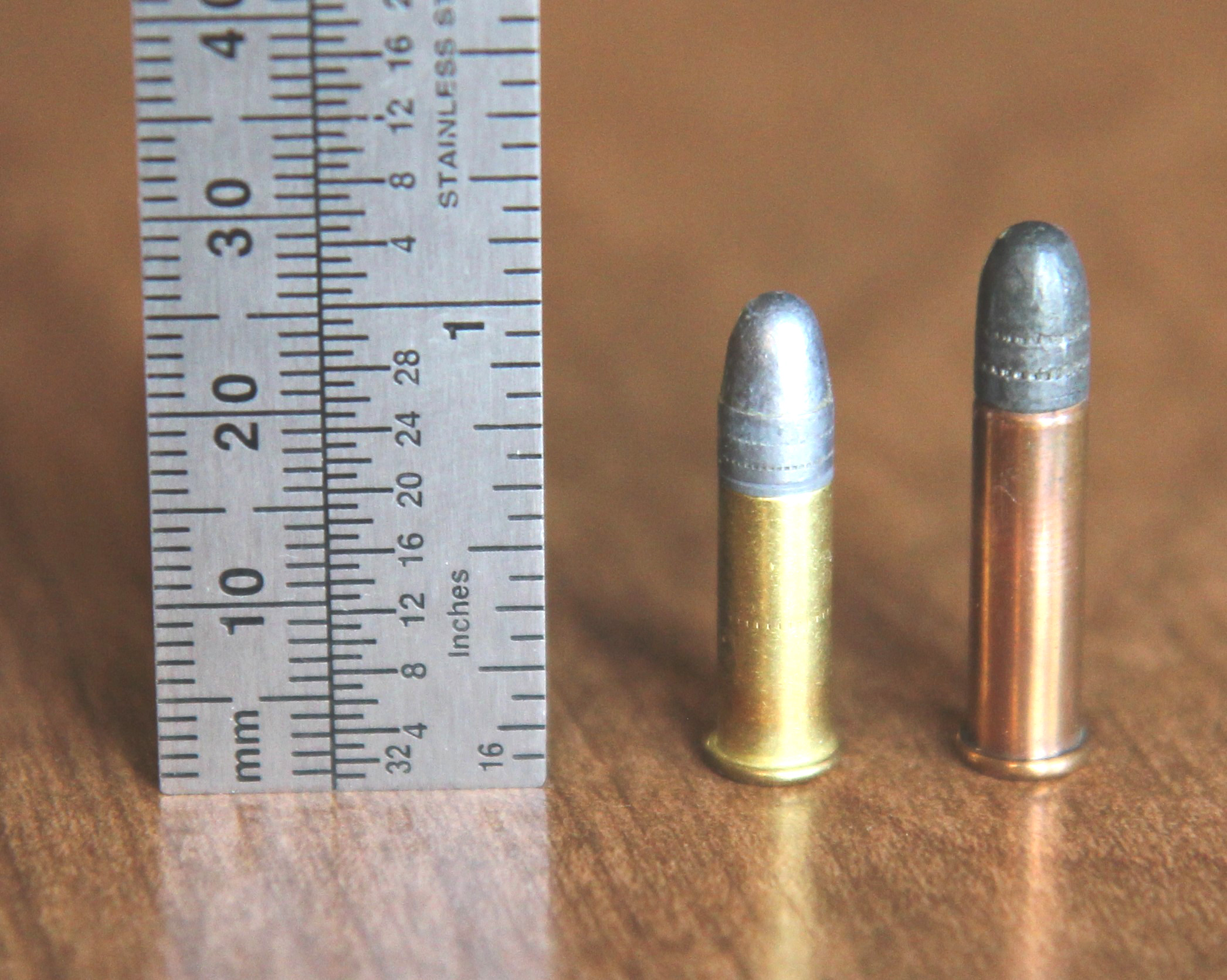 A .22 Extra Long cartridge next to a metric/imperial ruler with a.22 Long Rifle cartridge for comparison.